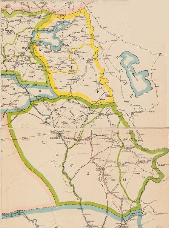 Detail of map "Empire Ottoman: Division Administrative", showing the vilayets of Van and Mossoul (Mosul). They are bordered in the east by Persia; in the west by the arabian desert and the vilayets of Diarbika and Bitlis; in the south by Bagdad vilayet; and in the north by Erzeroum vilayet.